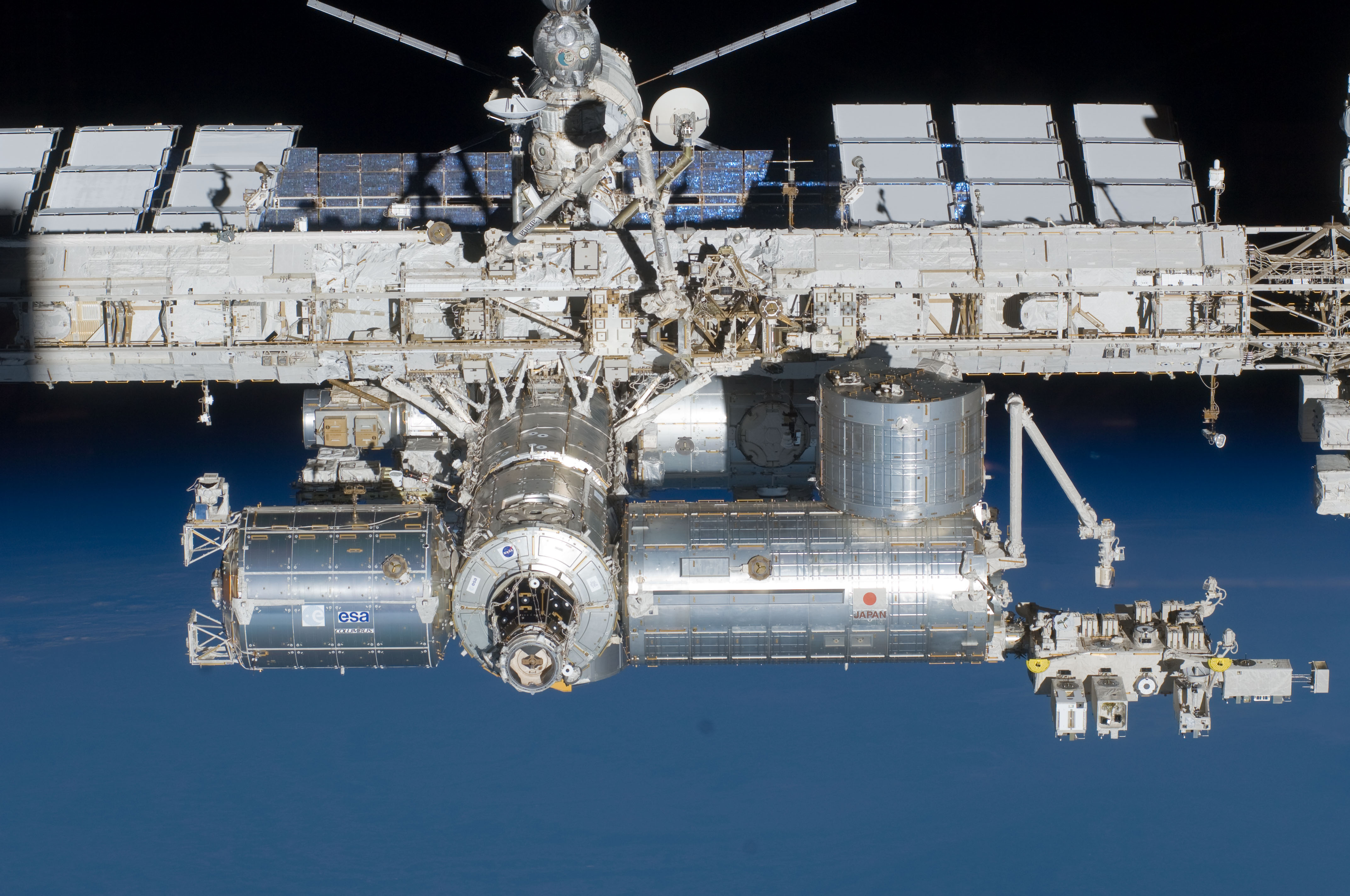 A close-up view of a section of the International Space Station is featured in this image photographed by an STS-134 crew member on the space shuttle Endeavour after the station and shuttle began their post-undocking relative separation. Undocking of the two spacecraft occurred at 11:55 p.m. (EDT) on May 29, 2011. Endeavour spent 11 days, 17 hours and 41 minutes attached to the orbiting laboratory.